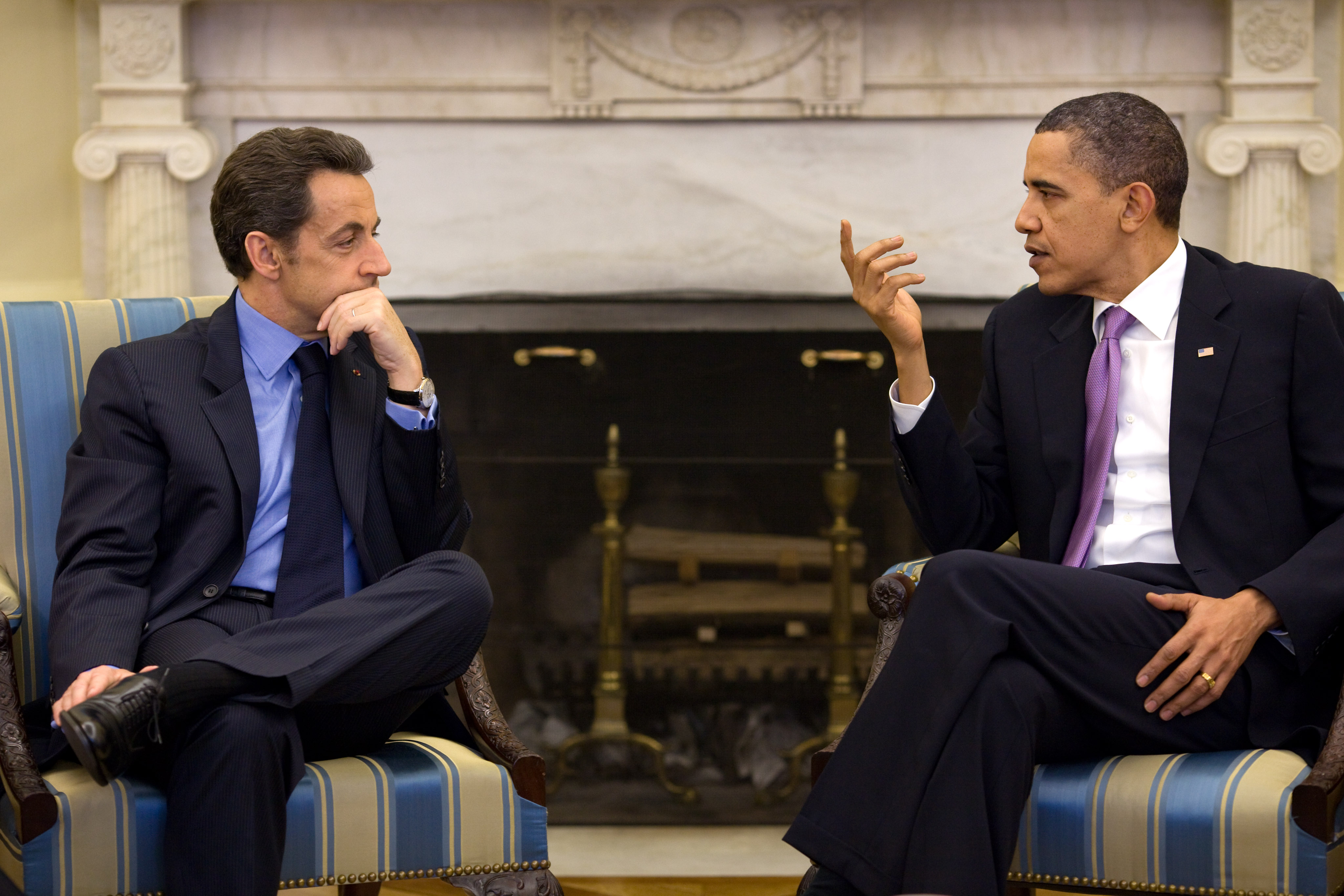 President Barack Obama meets with President Nicolas Sarkozy of France in the Oval Office, March 30, 2010. (Official White House Photo by Pete Souza) This official White House photograph is in the public domain from a copyright perspective, so while restrictions such as personality or privacy rights may apply, in general, manipulations are allowed.